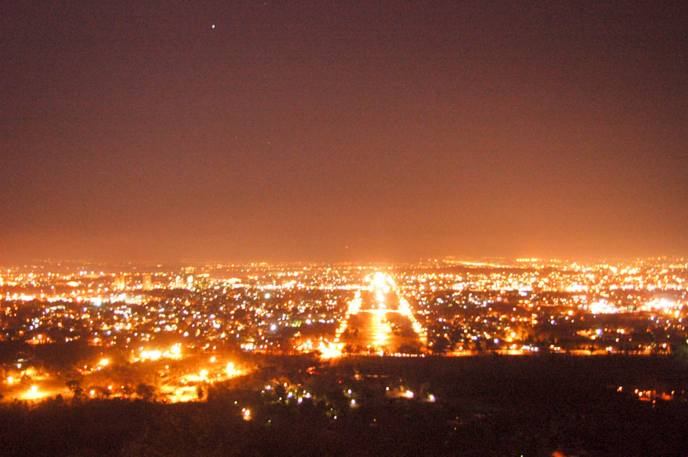 A view of Islamabad from Daman-e-Koh at Margalla Hills